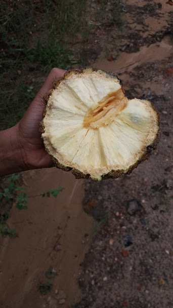 Annona crassiflora